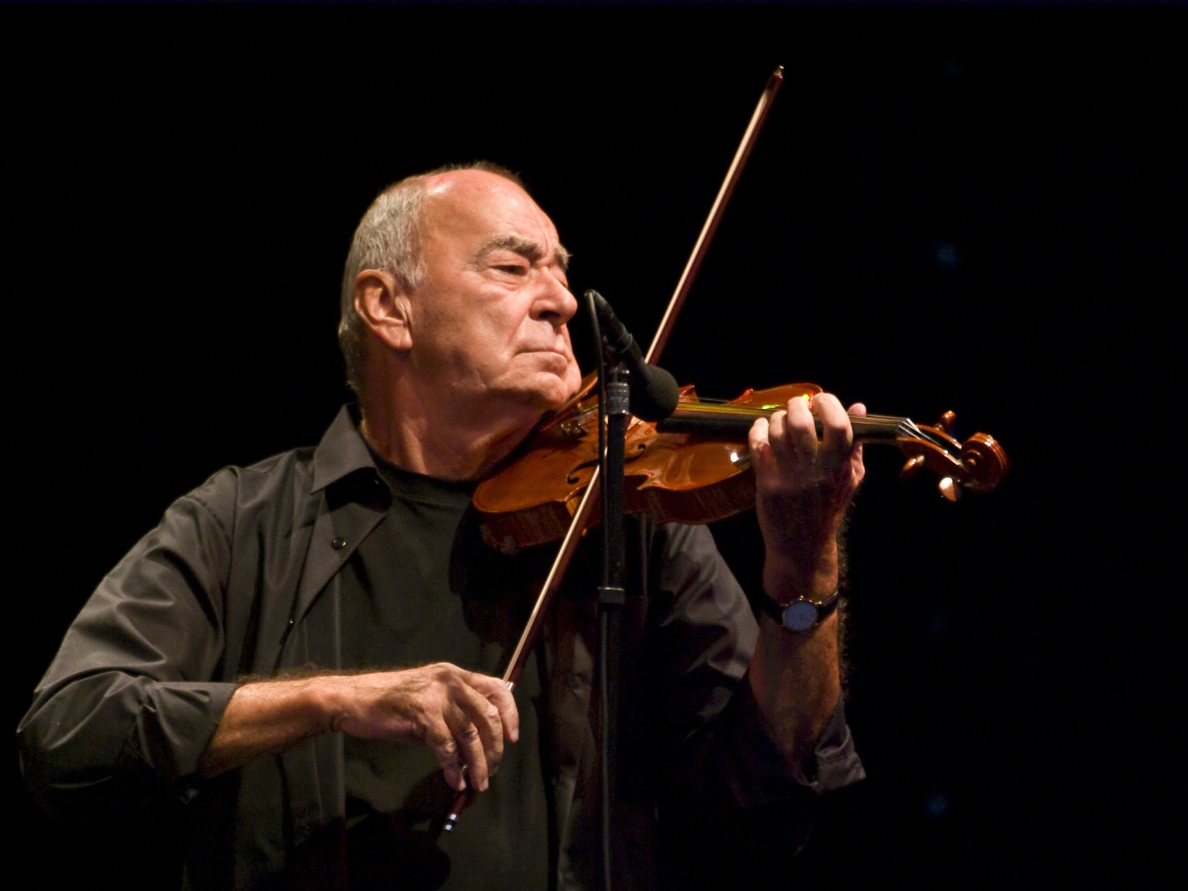 Austrian violinist Toni Stricker performs in Tulln on 2. August 2008.